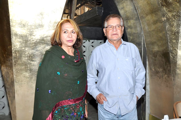 Helen and Salim Khan at launch of Shatranj Napoli and Polpo Cafe & Bar